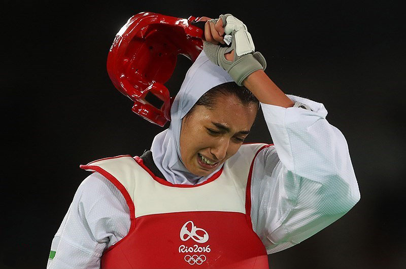 Kimia Alizadeh after defeat by Eva Calvo, Spanish taekwondo athlete.